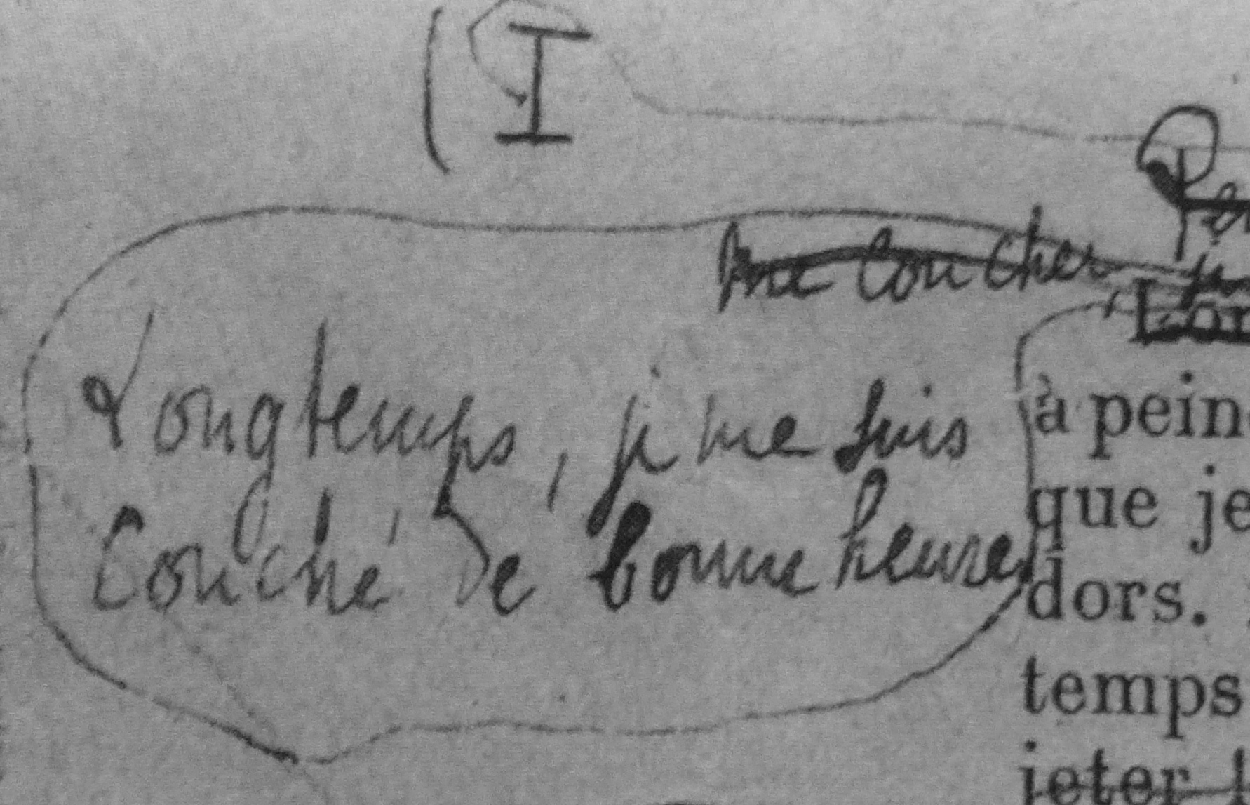 Beginning of "À la recherche du temps perdu", tome 1.